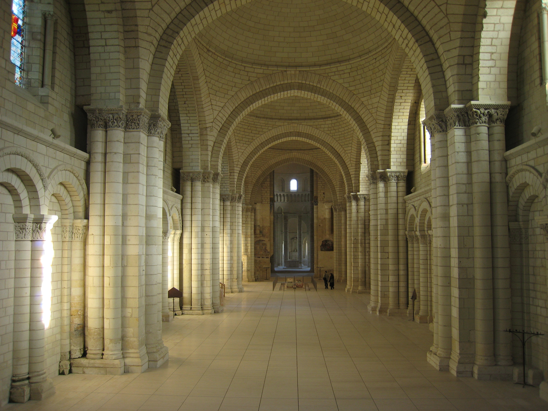 Monastery Fontevraud in France, inside the abbey chapel